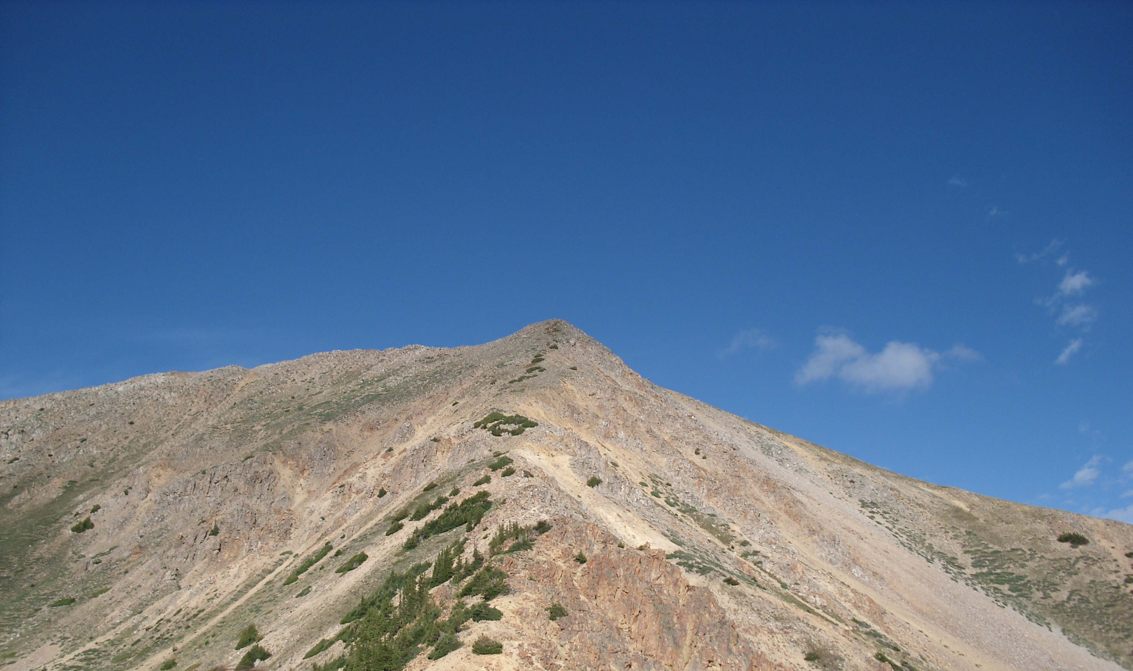 The approach to Winfield Peak from the ridge. Taken June 2012.